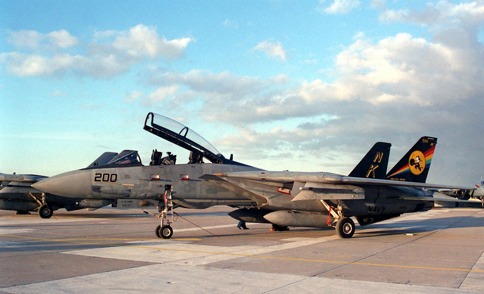 A port side view of a US Navy F-14D (Tomcat) from Fighter Squadron 31 (VF-31), parked at its new home Naval Air Station Oceana, VA. VF-31 moved from Naval Air Station Miramar, San Diego, CA, following decisions made under the base closure and realignment initiative.Location: NAVAL AIR STATION, OCEANA, VIRGINIA (VA) UNITED STATES OF AMERICA (USA)